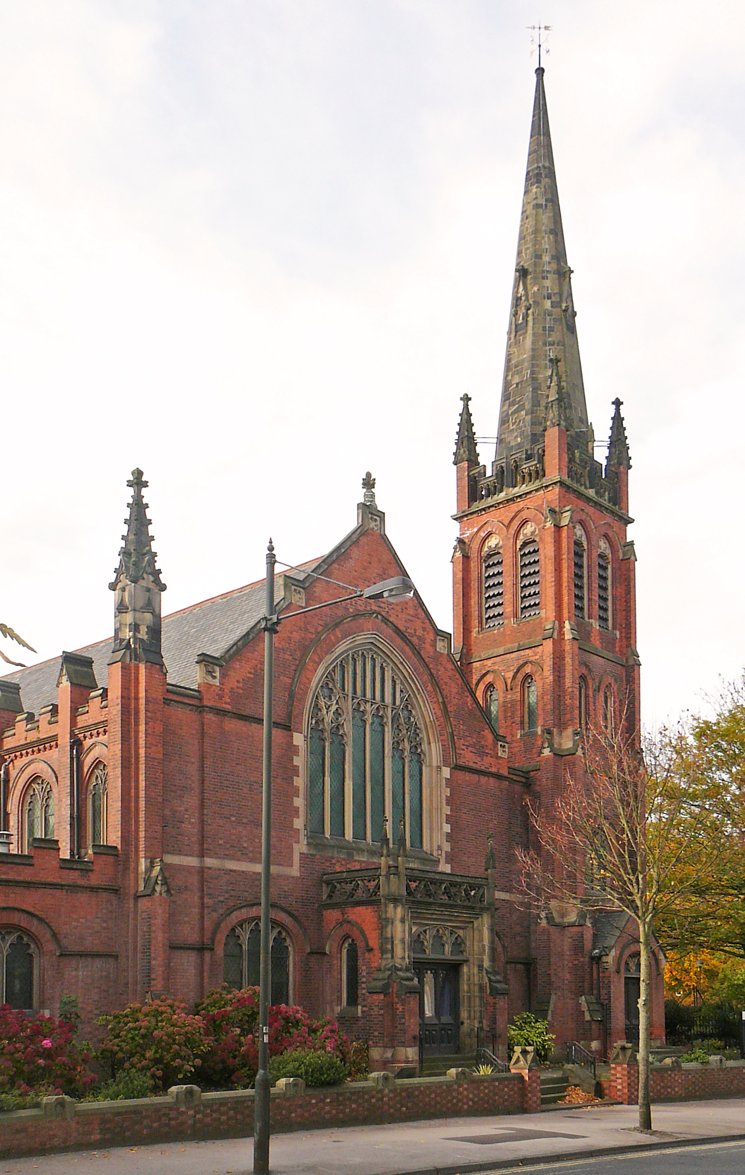 The Methodist church in the Clifton area of York, North Yorkshire. Taken on Saturday the 30th of October 2010.